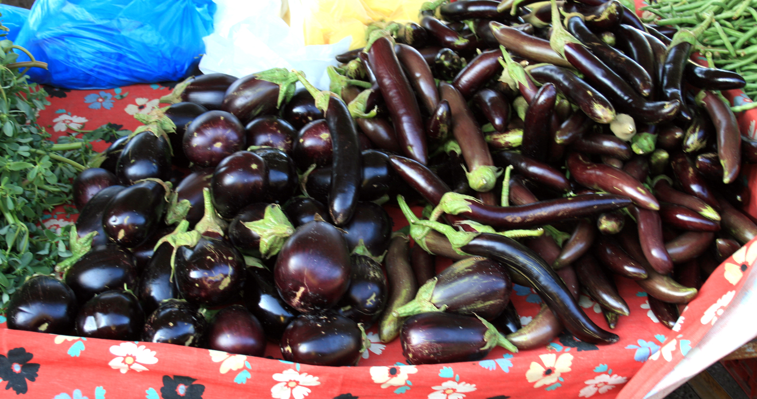 Different kinds of aubergines on vegetable market in Rhodes, Rhodes island, Dodecanese, Greece